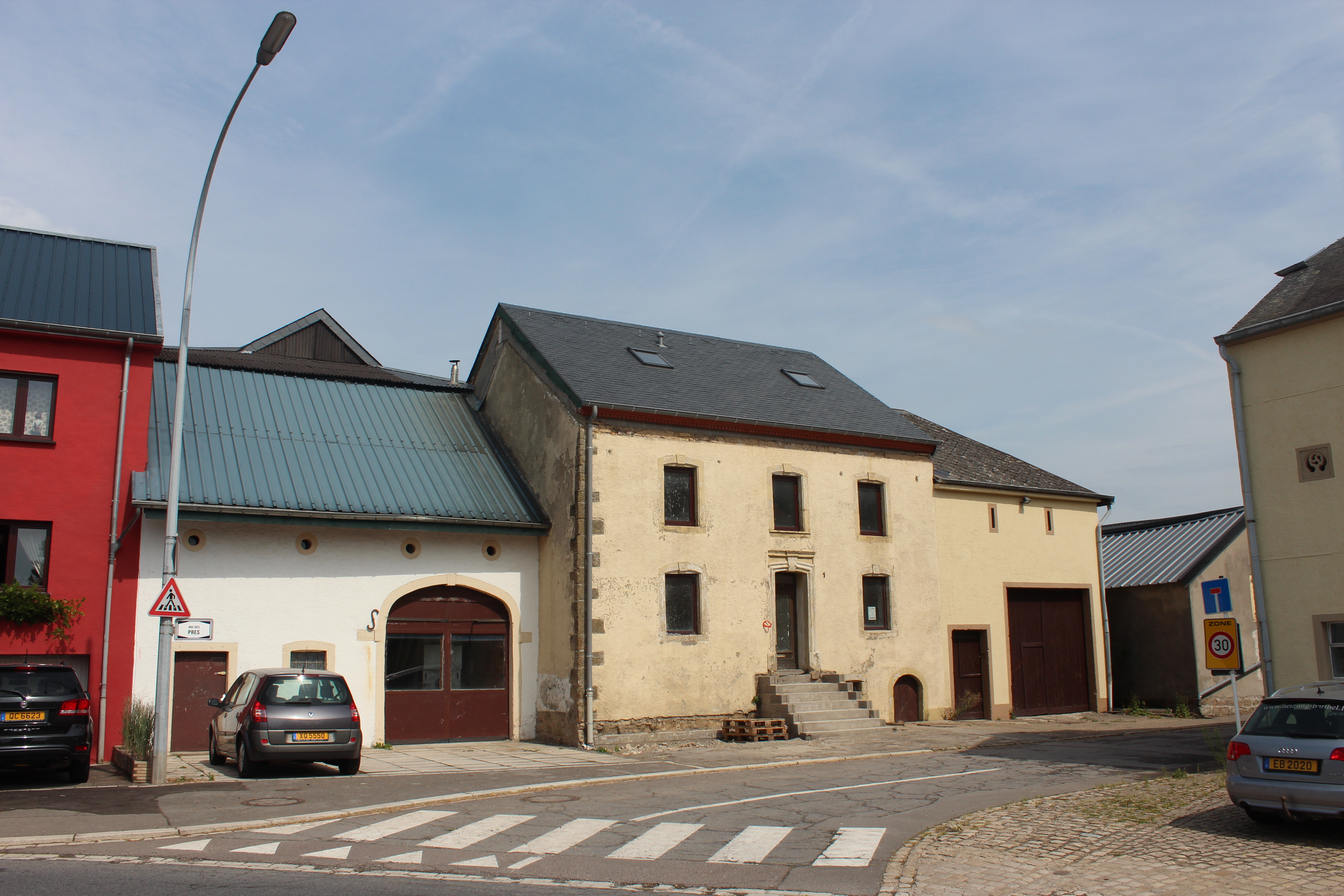 1 rue des Prés in Gonderange, Luxembourg; Inventaire supplémentaire (cultural heritage monument) since 2011